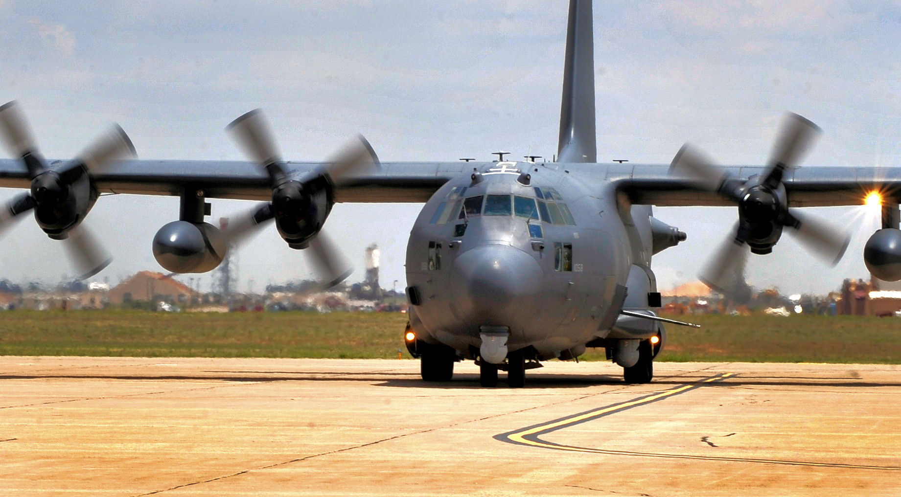 An AC-130W Stinger II, 73rd Special Operations Squadron, taxis down the flight line at Cannon Air Force Base, N.M., July 12, 2012. The Stinger is operated by the 73 SOS who’s dedicated and level-headed Airmen strive every day to ensure that their motto “Without fail” is achieved. (U.S. Air Force photo by Airman 1st Class Ericka Engblom)